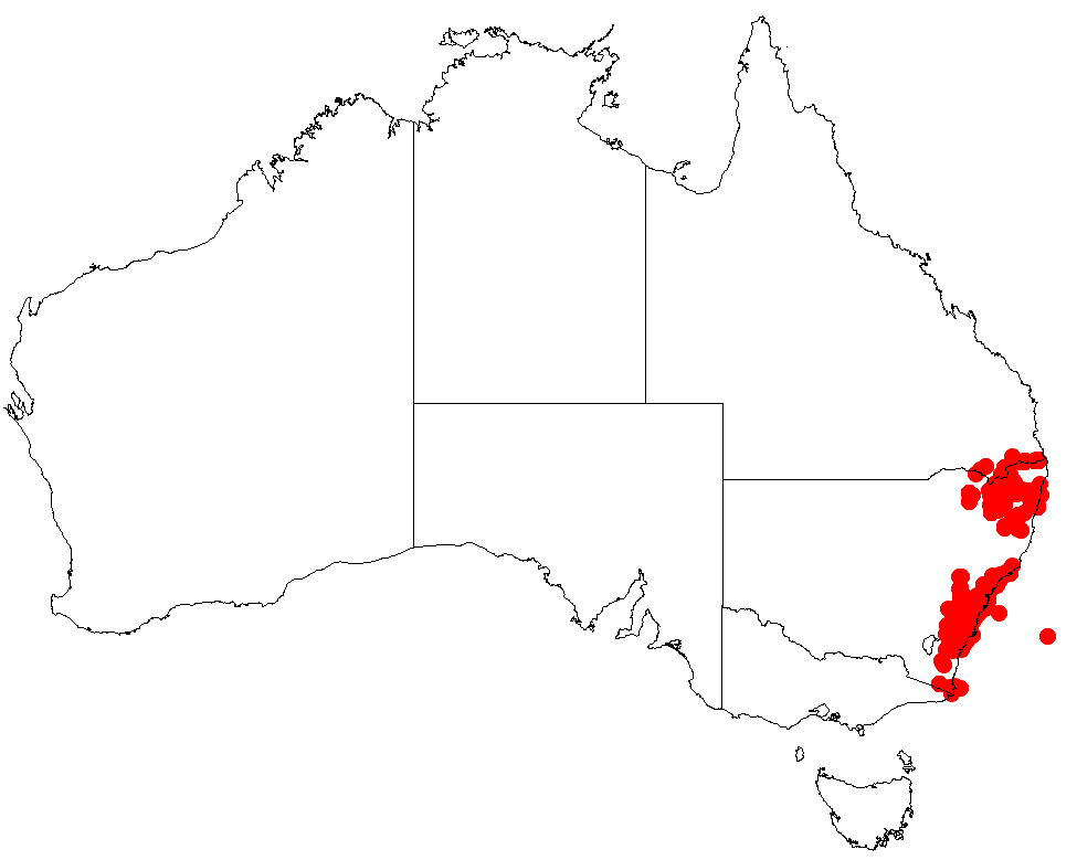 Hakea laevipes Occurrence data downloaded from Australasian Virtual Herbarium on 22 November 2018 using